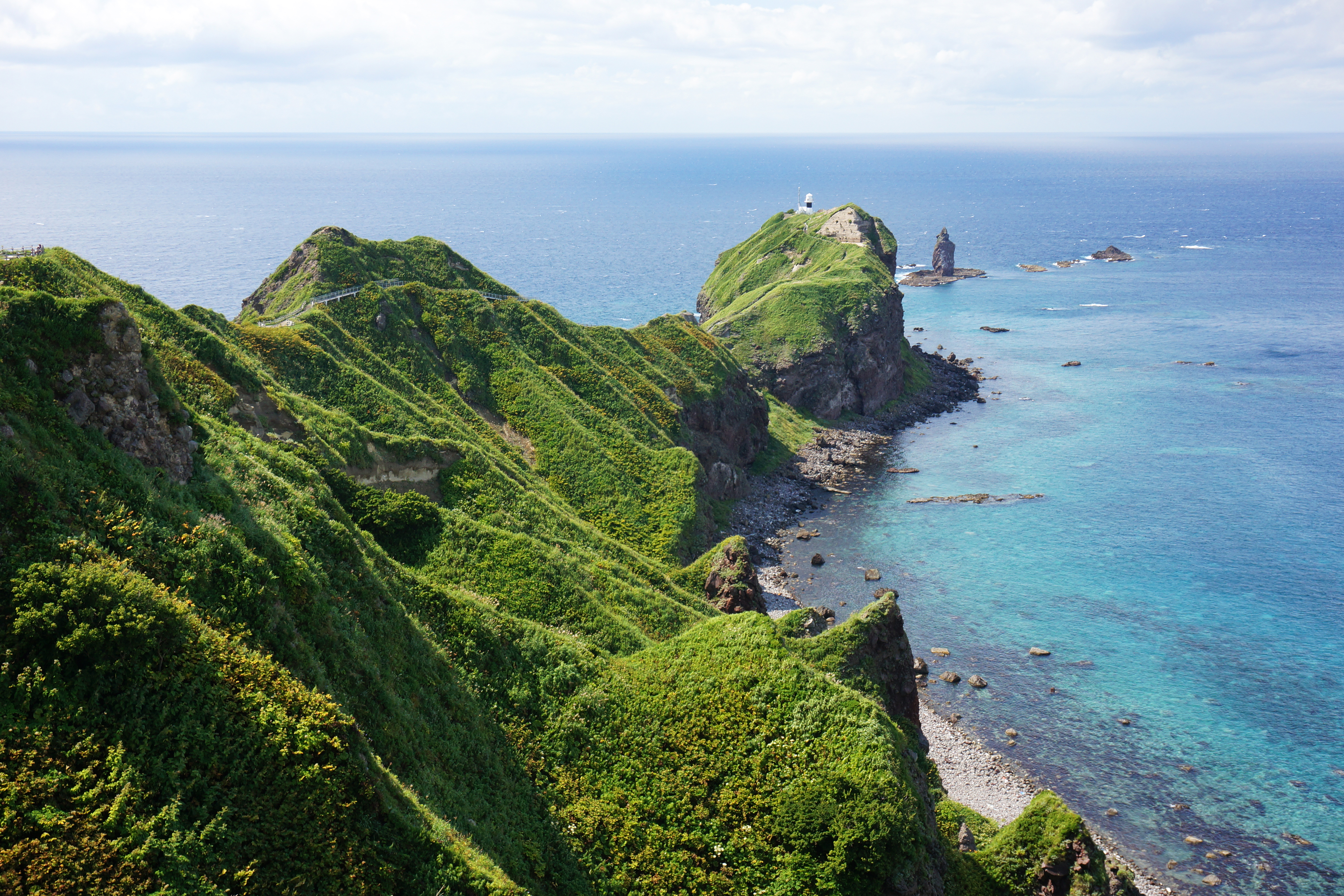 Cape Kamui in Shakotan, Hokkaido prefecture, Japan.